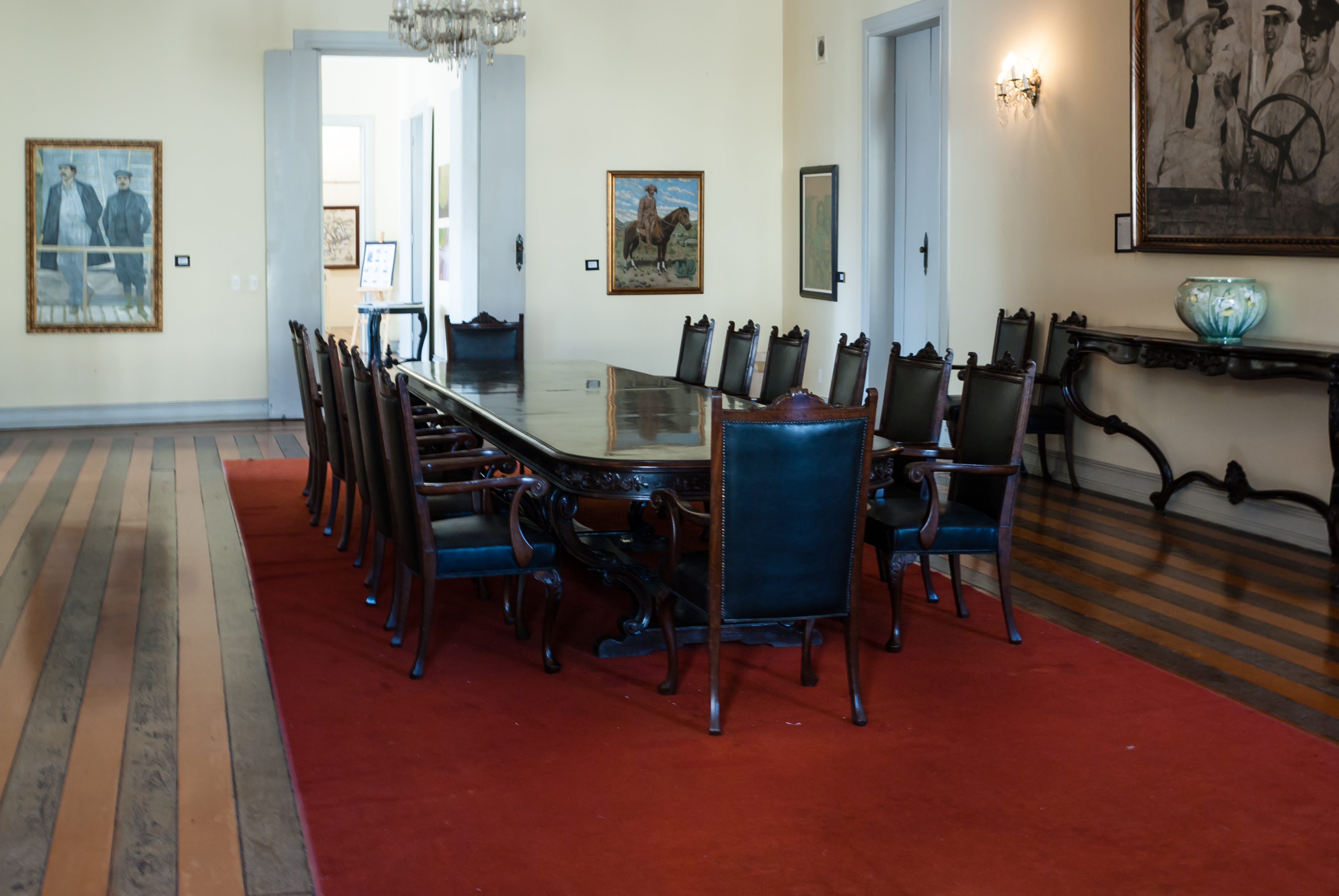 Interior of Palacio Potengi, Natal